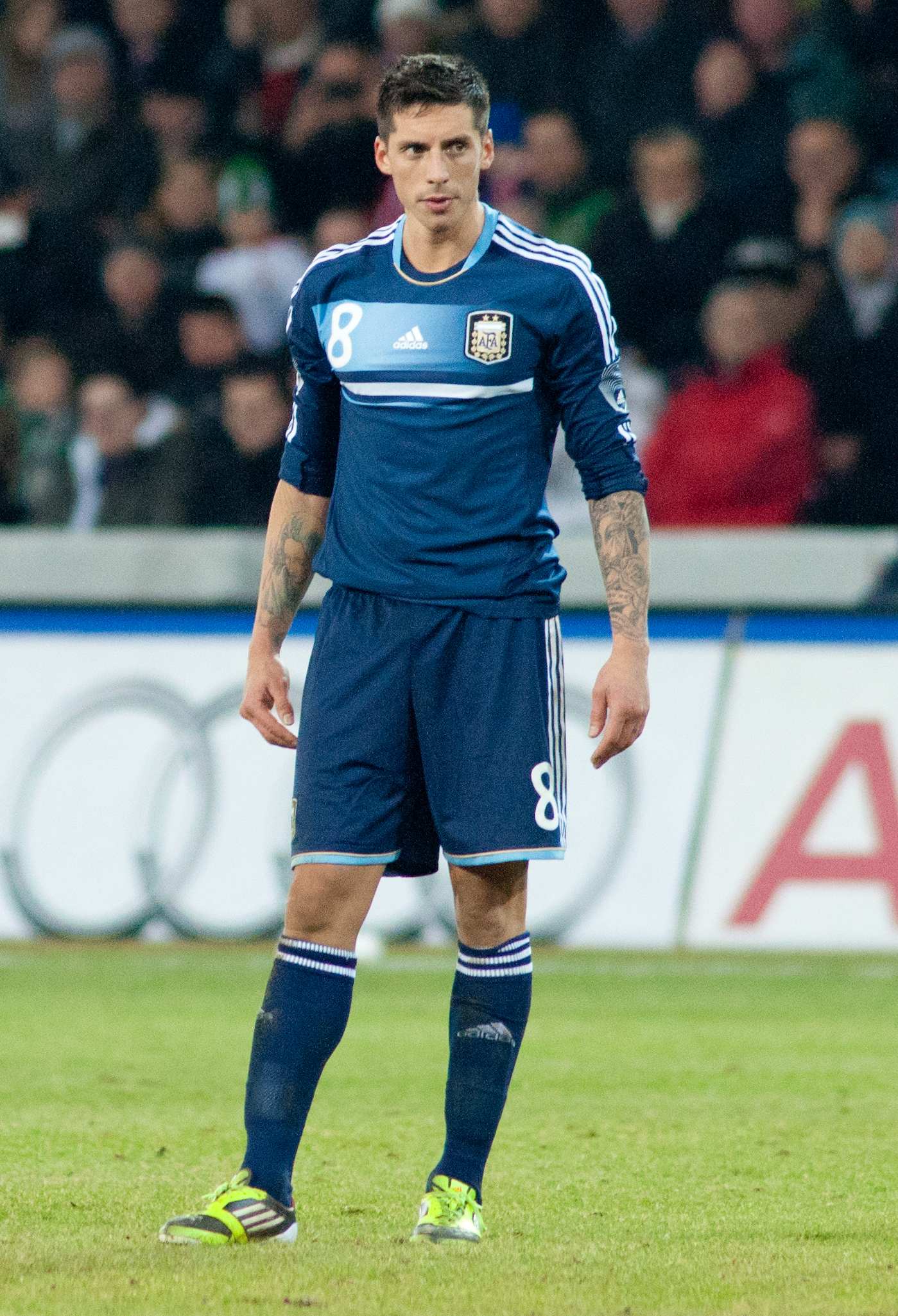 The making of this document was supported by Wikimedia CH. (Submit your project!) For all the files concerned, please see the category Supported by Wikimedia CH. Switzerland vs. Argentina, 29th February 2012